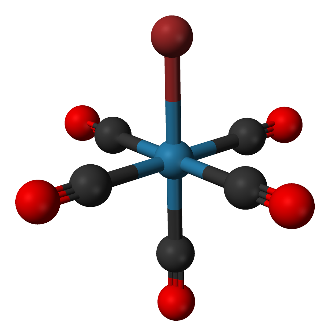 Ball-and-stick model of the bromopentacarbonylrhenium(I) molecule, Re(CO)5Br